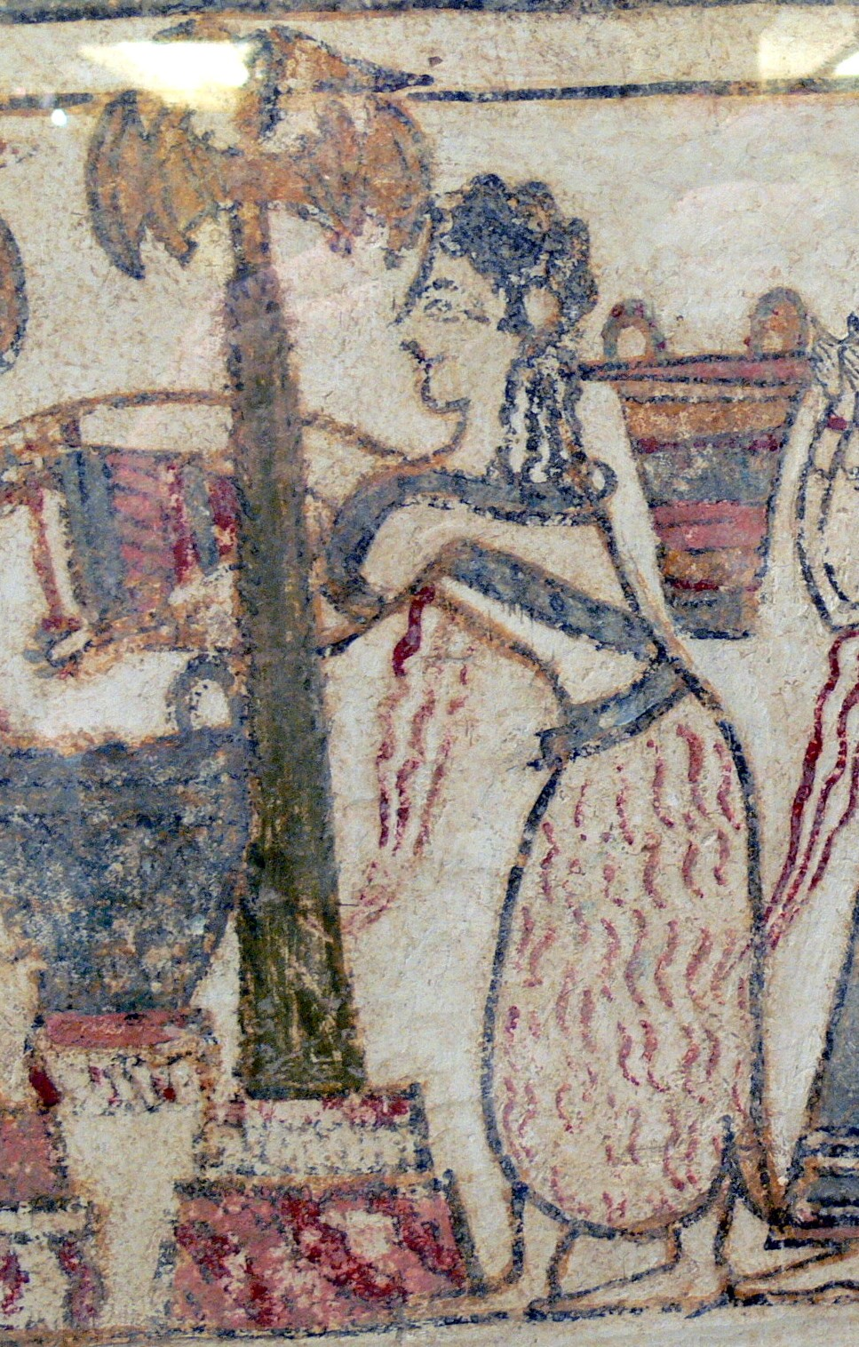 Archaeological Museum of Herakleion. Sarcophagus of Agia Triada ( 1600 - 1450 B.C.) - detail: Priestess sacrificing a liquid at an altar adorned with double axes. She is followed by another woman and a lyre-player.